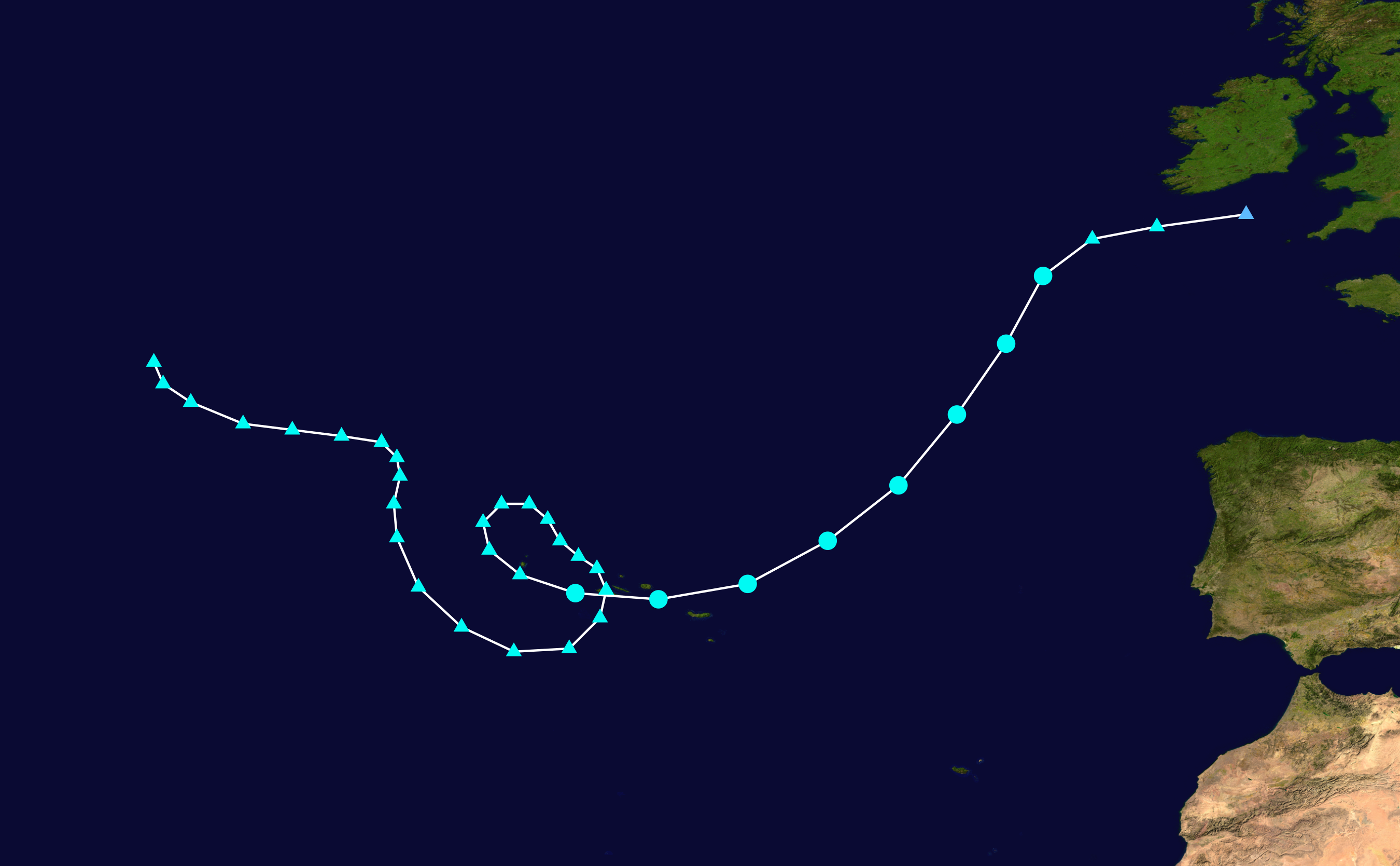 Track map of Tropical Storm Grace of the 2009 Atlantic hurricane season. The points show the location of the storm at 6-hour intervals. The colour represents the storm's maximum sustained wind speeds as classified in the Saffir–Simpson scale (see below), and the shape of the data points represent the nature of the storm, according to the legend below. Saffir–Simpson scale Tropical depression≤38 mph≤62 km/h Category 3111–129 mph178–208 km/h Tropical storm39–73 mph63–118 km/h Category 4130–156 mph209–251 km/h Category 174–95 mph119–153 km/h Category 5≥157 mph≥252 km/h Category 296–110 mph154–177 km/h Unknown Storm type Tropical cyclone Subtropical cyclone Extratropical cyclone / Remnant low / Tropical disturbance / Monsoon depression